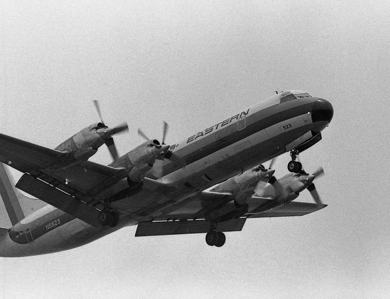 Lockheed L-188 Electra N5523 Eastern Air Lines Flightline Washington National Airport (1978)